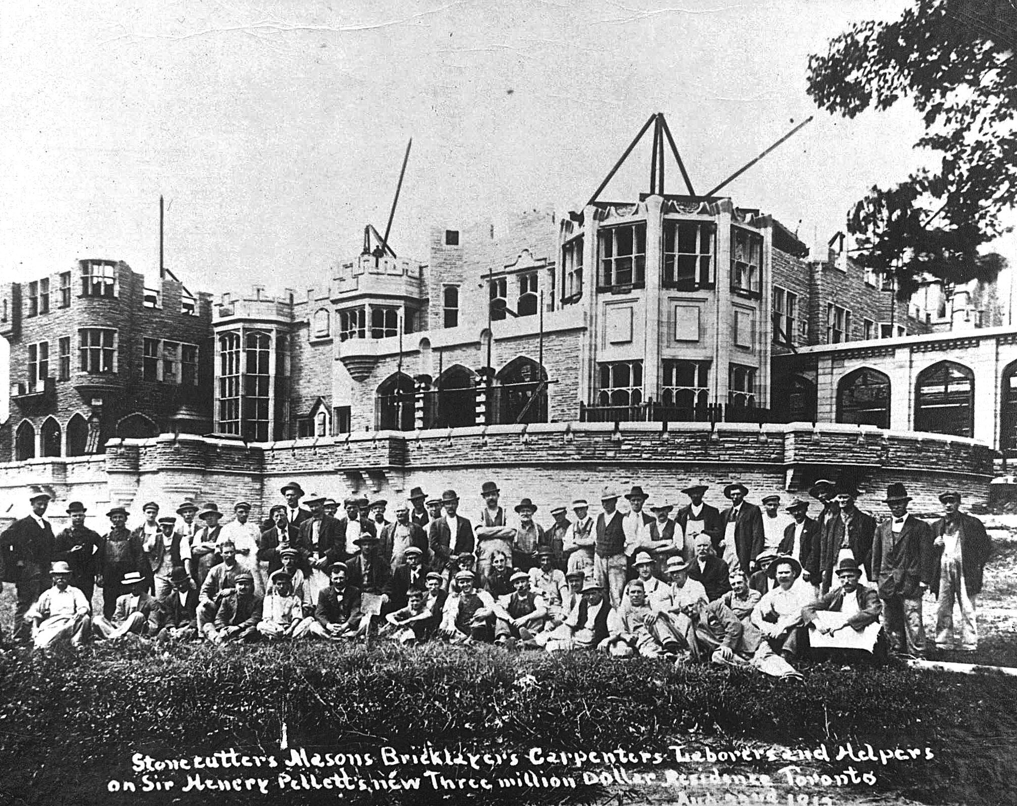 Photographs : Construction of Casa Loma, 1 Austin Terrace, Toronto, Ontario, Canada; circa 1912.